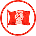 Historical badge of Salut Sport Club. Digitally enhanced and with alpha channel. Red filter applied.